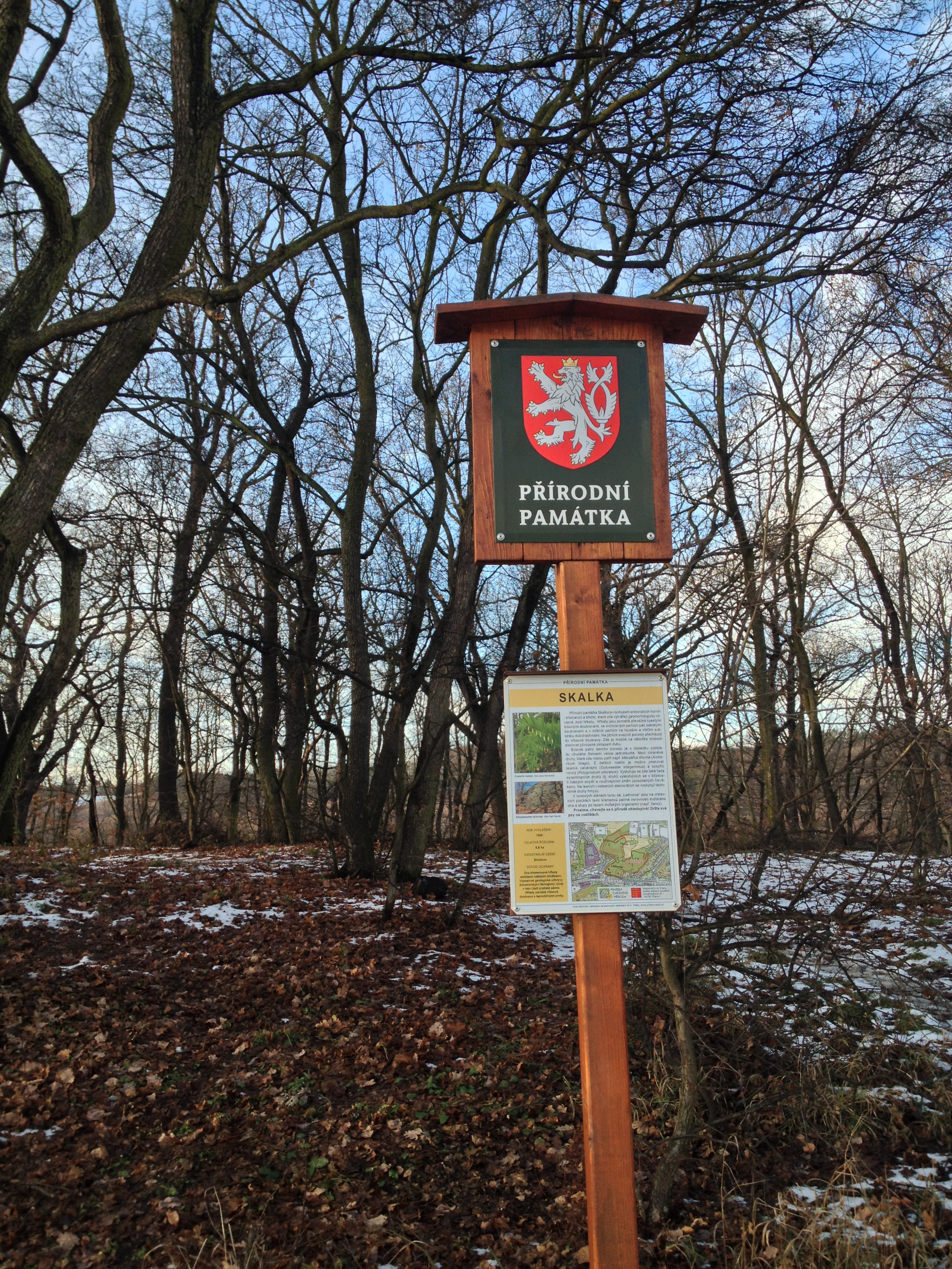 Natural monument Skalka in Prague, Czech Republic